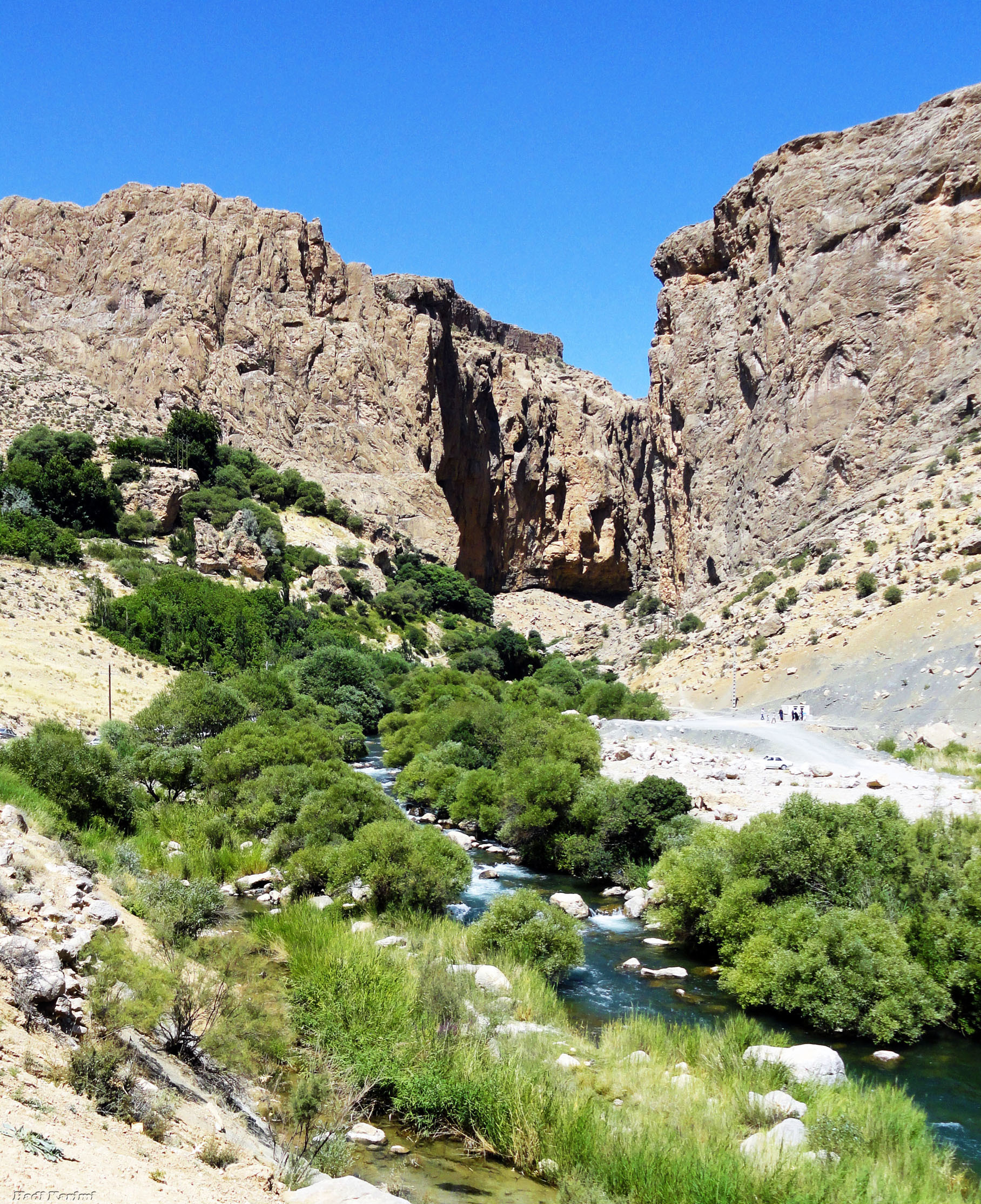 Tange Bragh (Boragh Canyon) in Fars Province, Iran